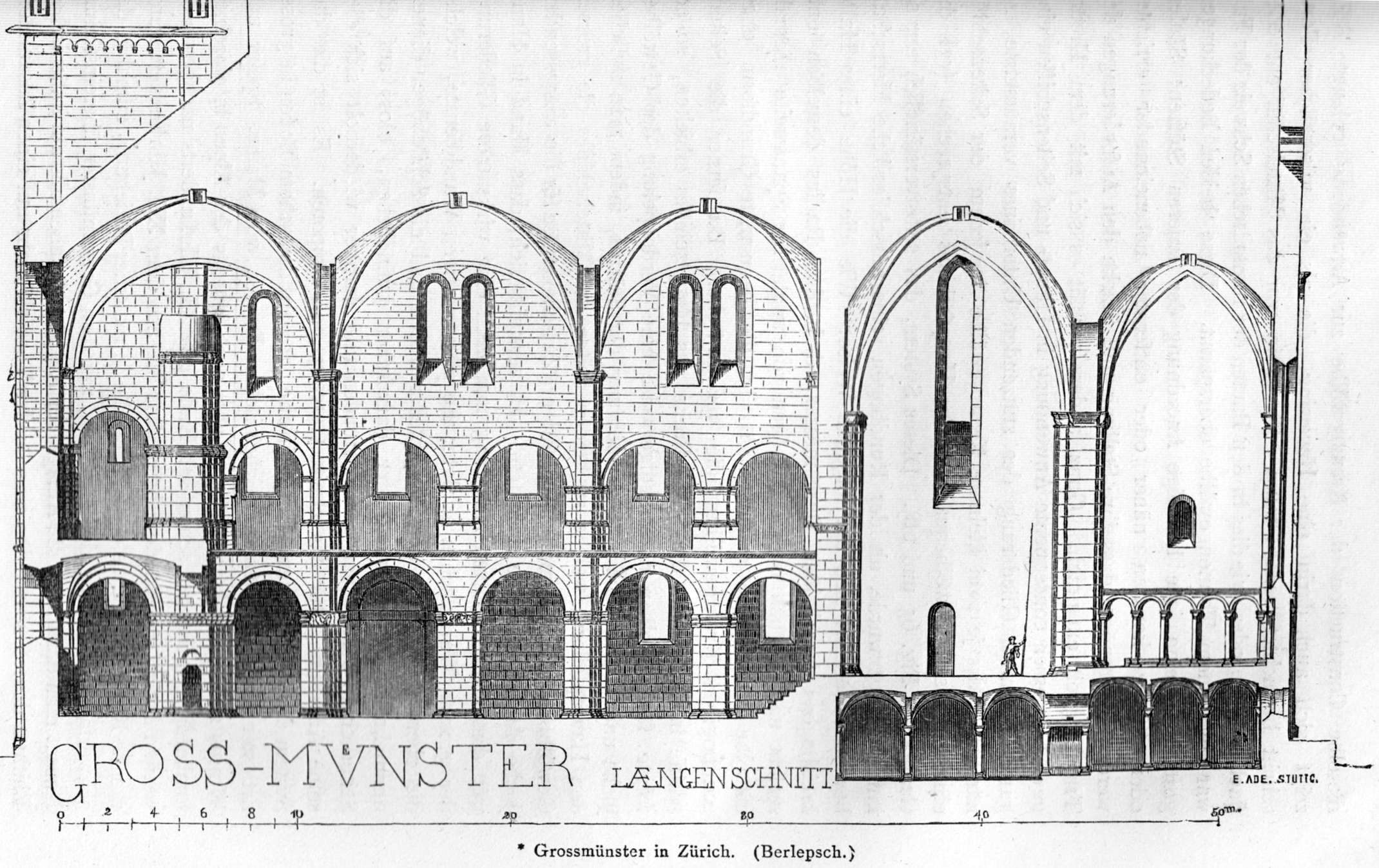 Cross-section of the Grossmünster in Zürich according to J.R. Rahn